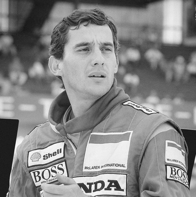 Ayrton Senna no Box da McLaren